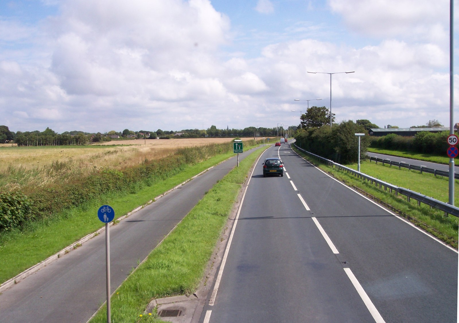 Warning of lane reduction on the A565 at Holmes